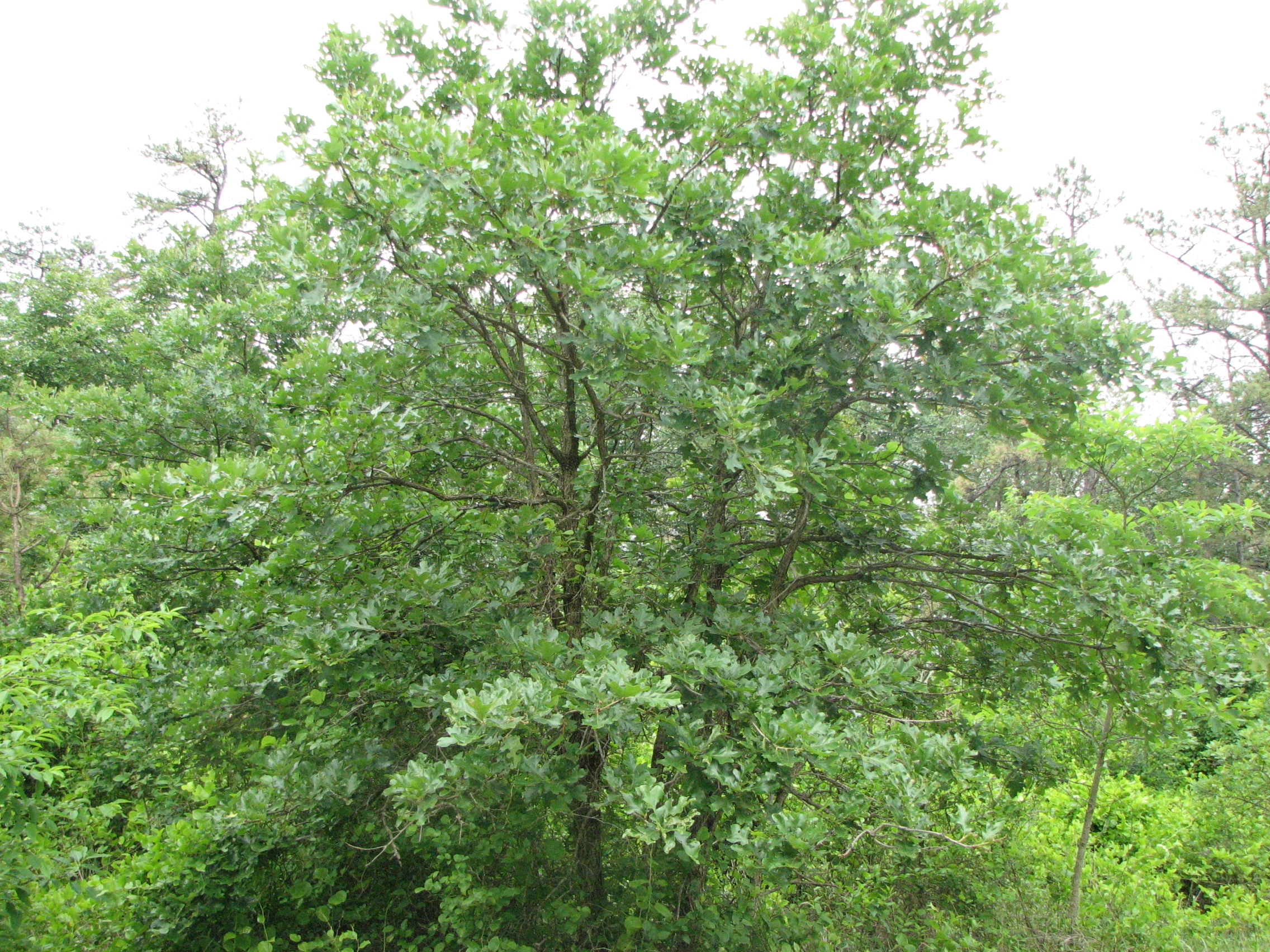 Quercus stellata (post oak) tree growing on serpentine barrens, Nottingham County Park, Nottingham, Pennsylvania.